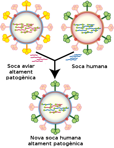 Overview of how different influenza strains can recombine to form completely new strains with characteristics of both. This process is called genetic shift, and is distinct from genetic drift, which is the process of accumulating point mutations. Made with Adobe Illustrator on OS X.